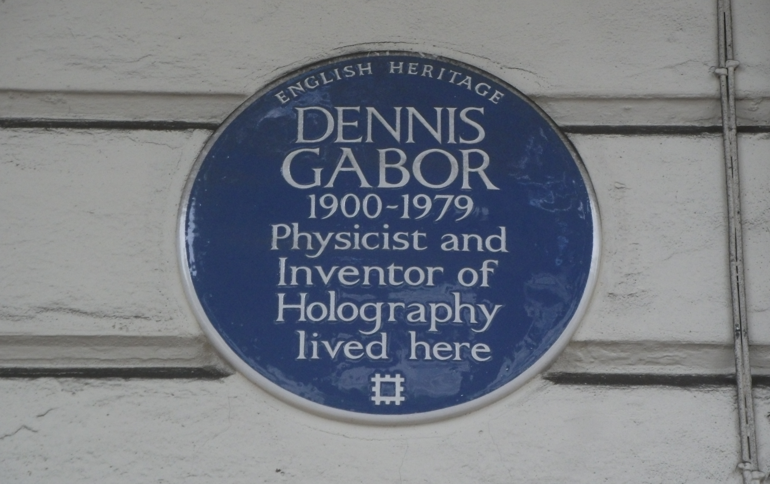 Gabor Dennis Blue Plaque in London